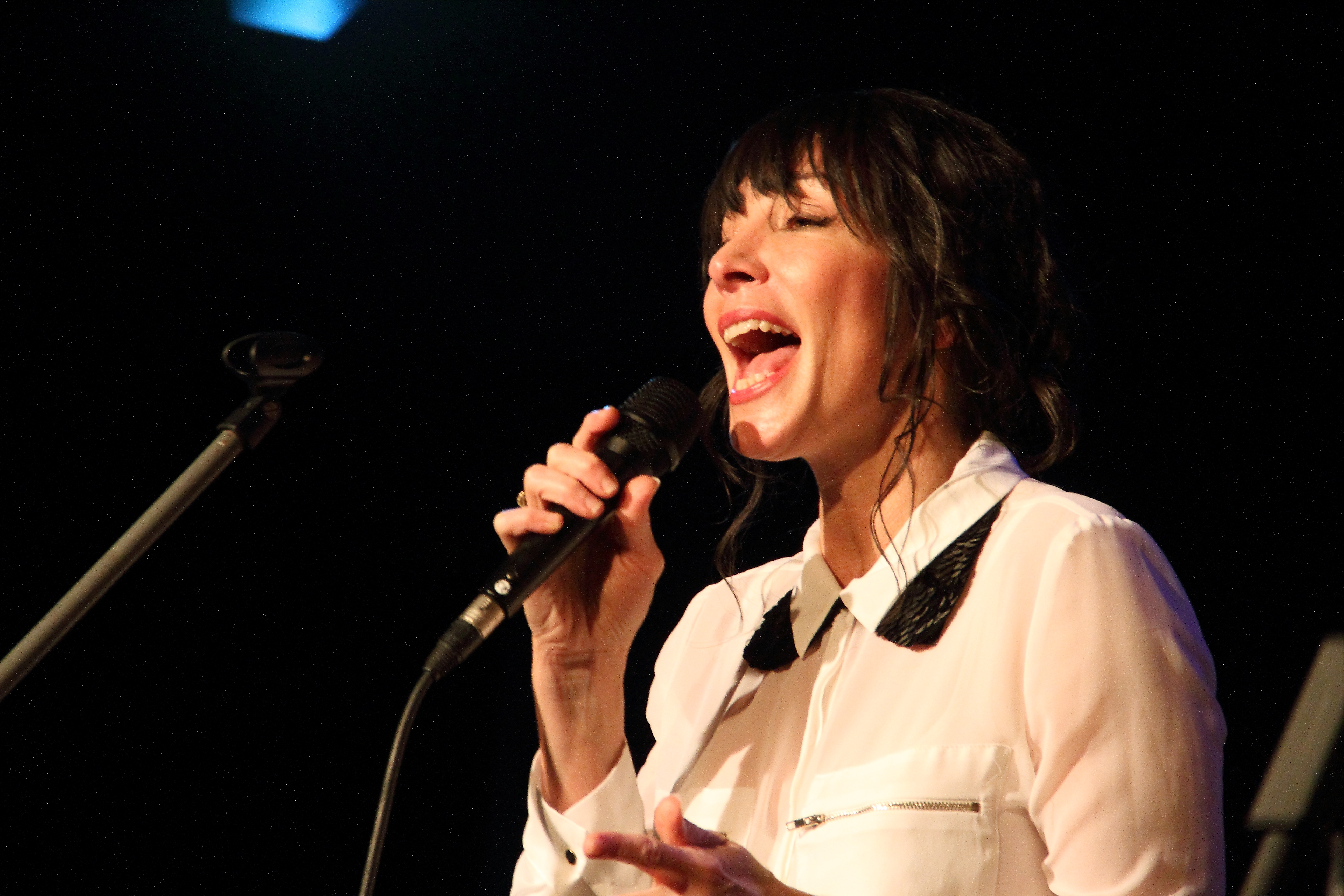 Danielle DeAndrea with Kyle DeAndrea and Gaby Moreno in concert at KULT, Niederstetten.